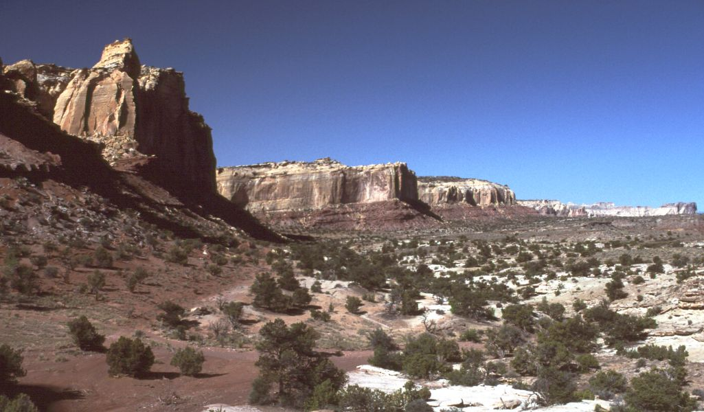 The eastern edge of the San Rafael Reef, looking south from the head of Wildhorse Canyon.